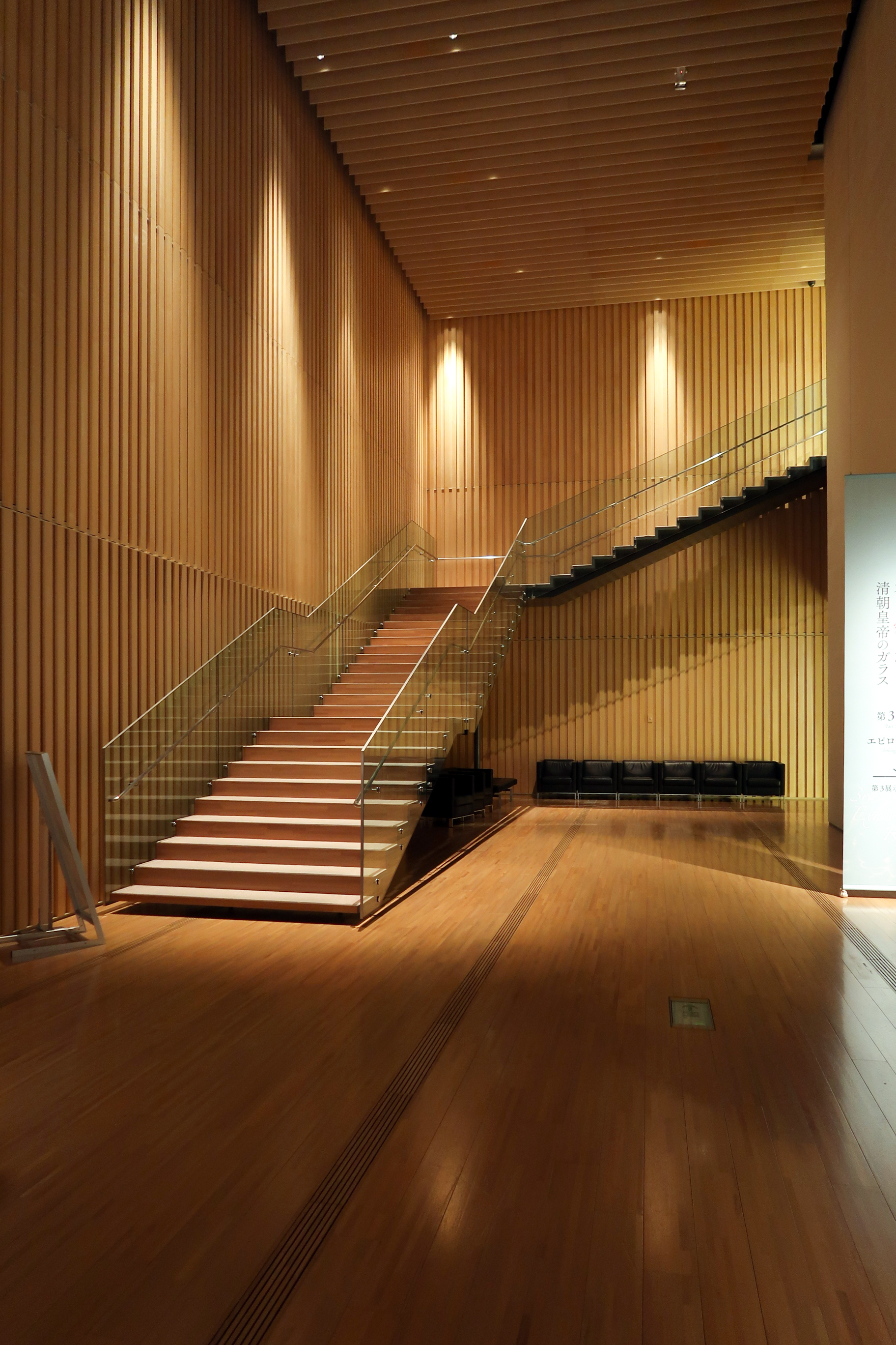 Suntory Museum of Art